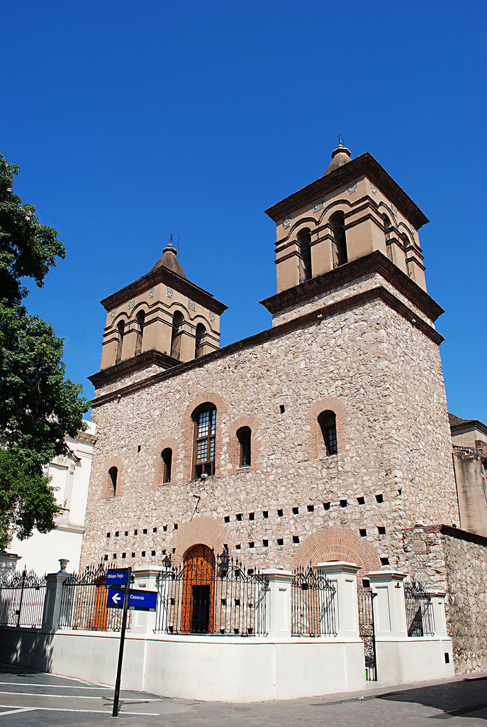 Society of Jesus church. Cordoba, Argentina.